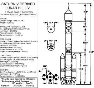 FLO Comet Layout